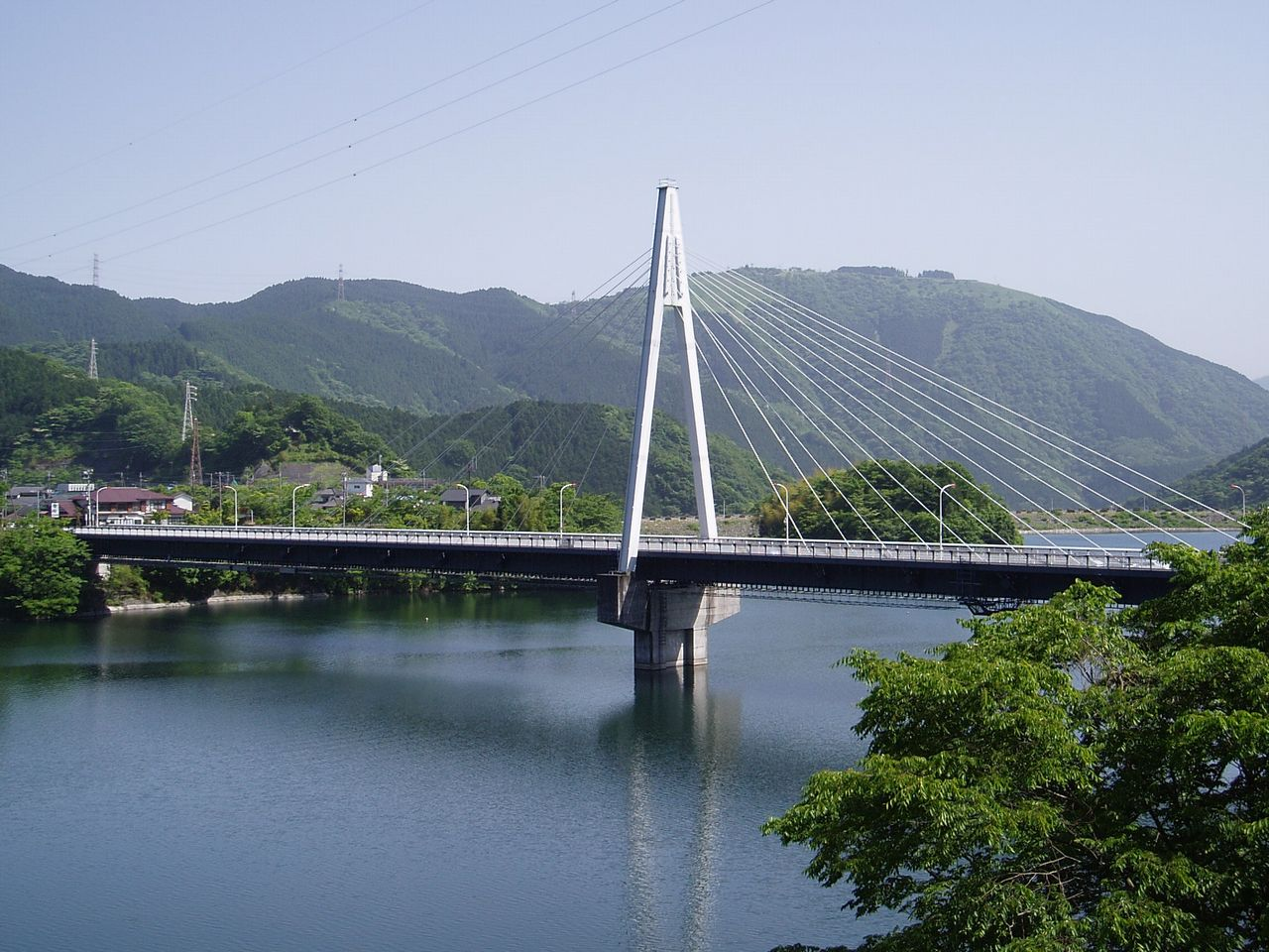 Eisai bridge on Lake Tanzawa